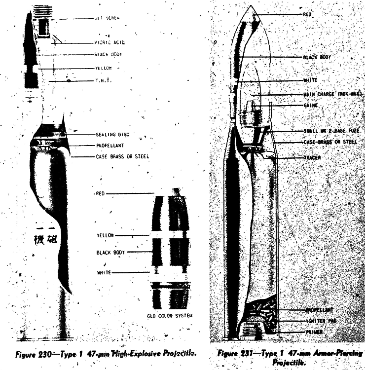 Type 1 47 mm tank and antitank guns ammunition